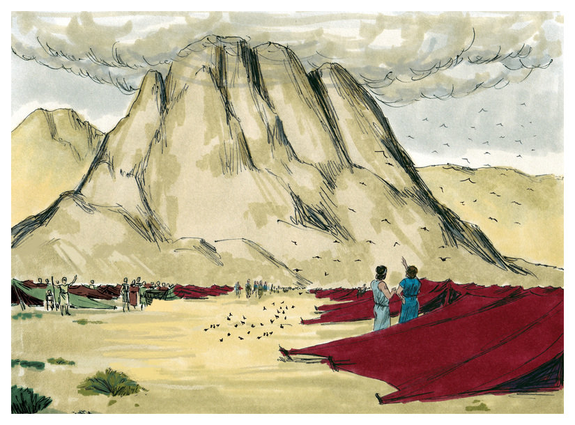 Biblical illustration of Book of Exodus Chapter 17